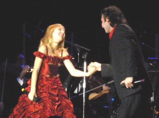 Jackie Evancho singing in Atlantic City on December 17, 2011 with tenor Christopher Dallo. Source: Photo by ssilvers.